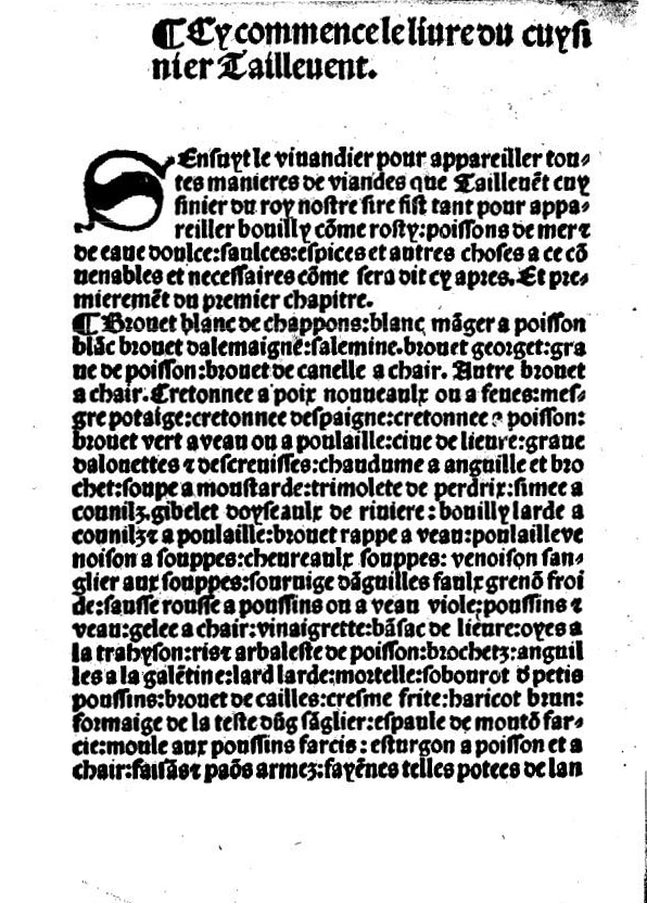 Title page of Taillevent's Viandier